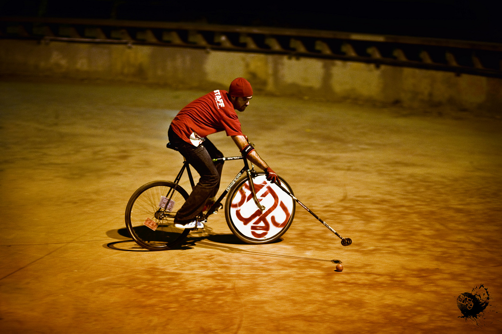 Spaceboy playing Bikepolo